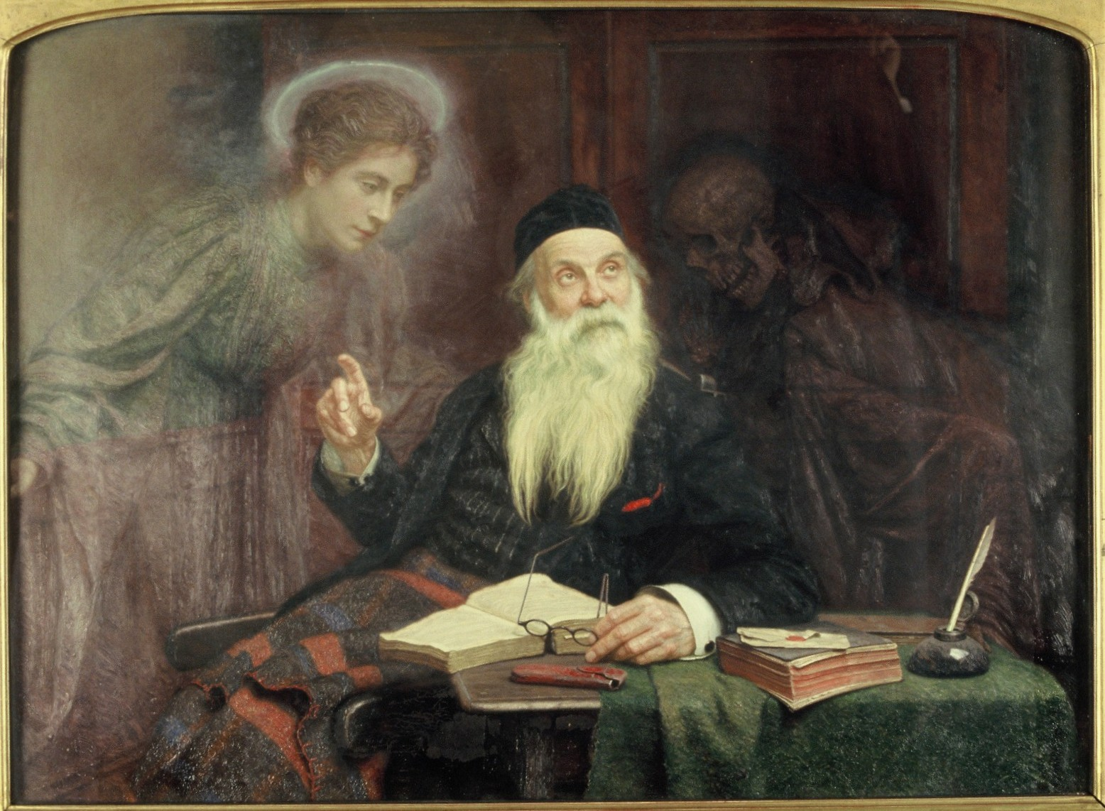 Oil painting by E G Handel Lucas, painted between 1901 and 1905